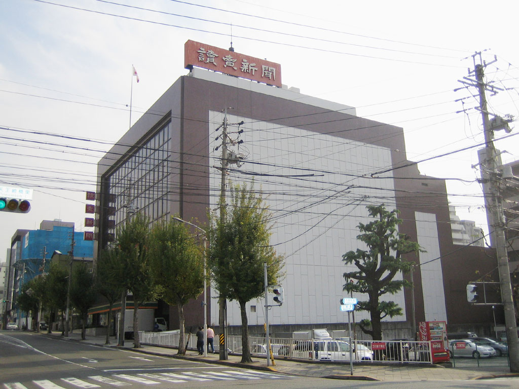 Central Japan Branch Office of the Yomiuri Shimbun (読売新聞中部支社 Yomiuri Shimbun Chūbu Sisha),in Nagoya, Aichi, Japan